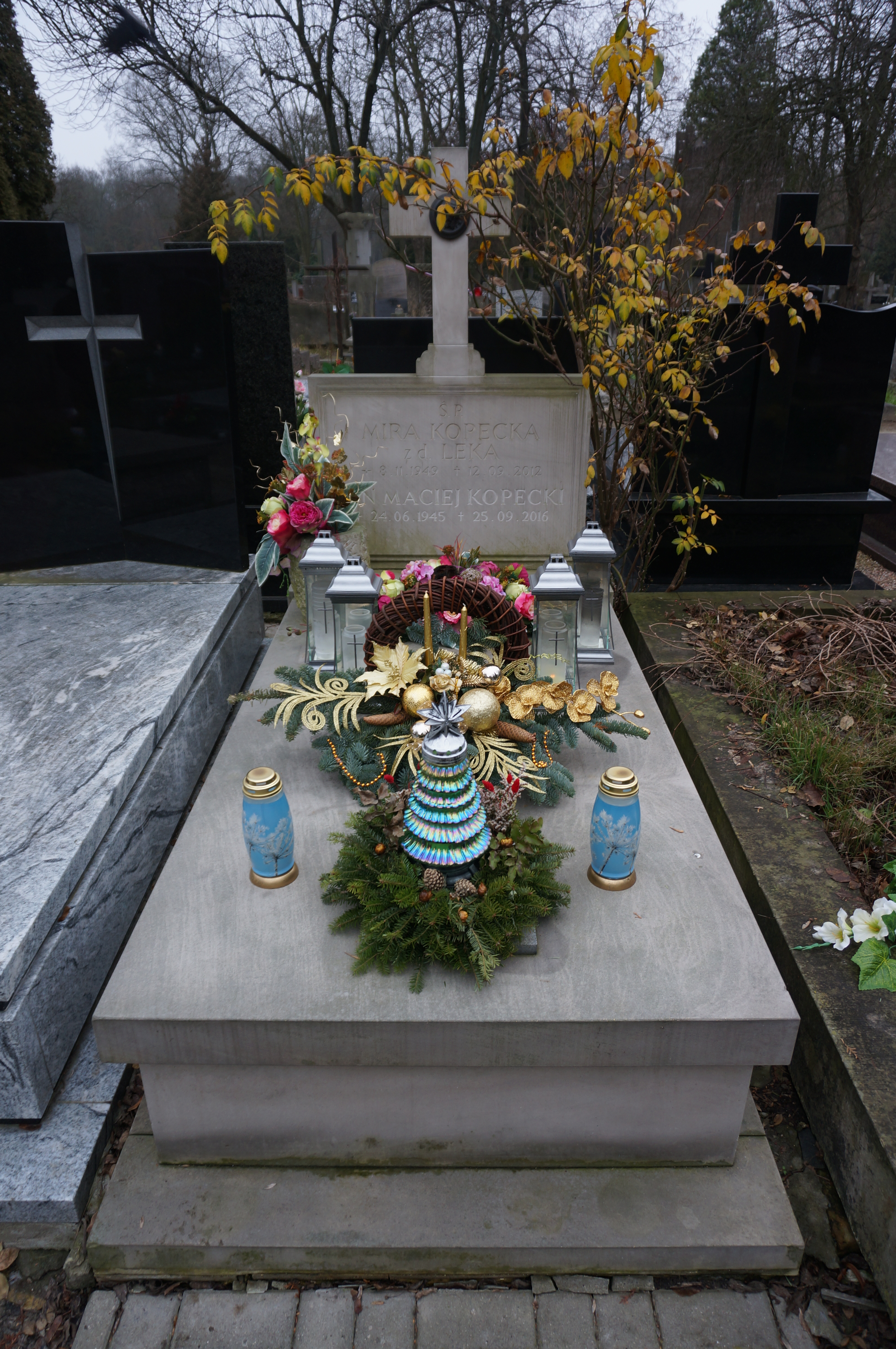 The grave of Jan Maciej Kopecki at the Powązki Cemetery (section f, row 2, grave 24)